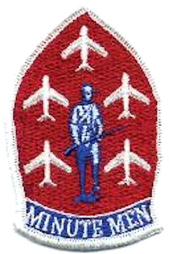 120th Fighter-Interceptor Squadron Minutemen Aerial Demonstration Team - Emblem.